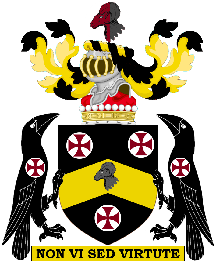 The armorial achievement of The Viscount Soulbury